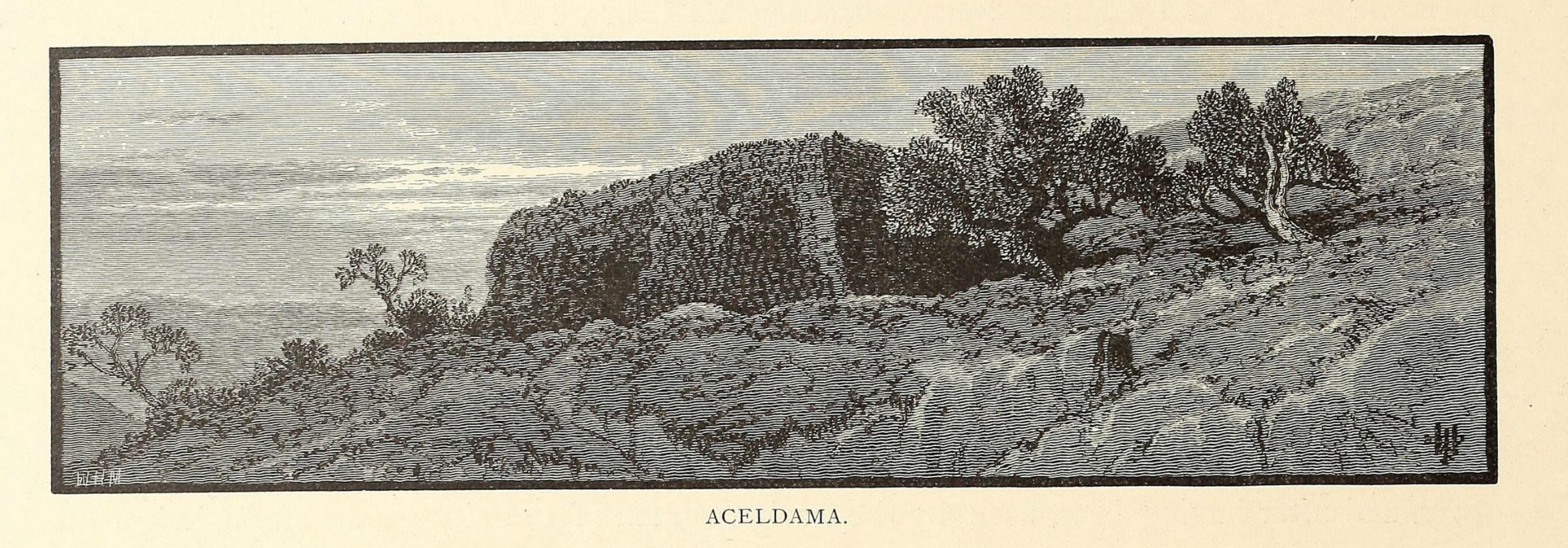 Caption: aceldama. A woodcut engraving of J.D. Woodward's sketch or watercolor of the monastery at Aceldama, Akeldama, or Hakeldama: the "Field of Blood" or "Potters' Field" of Jerusalem associated in Christian legend with Judas Iscariot.